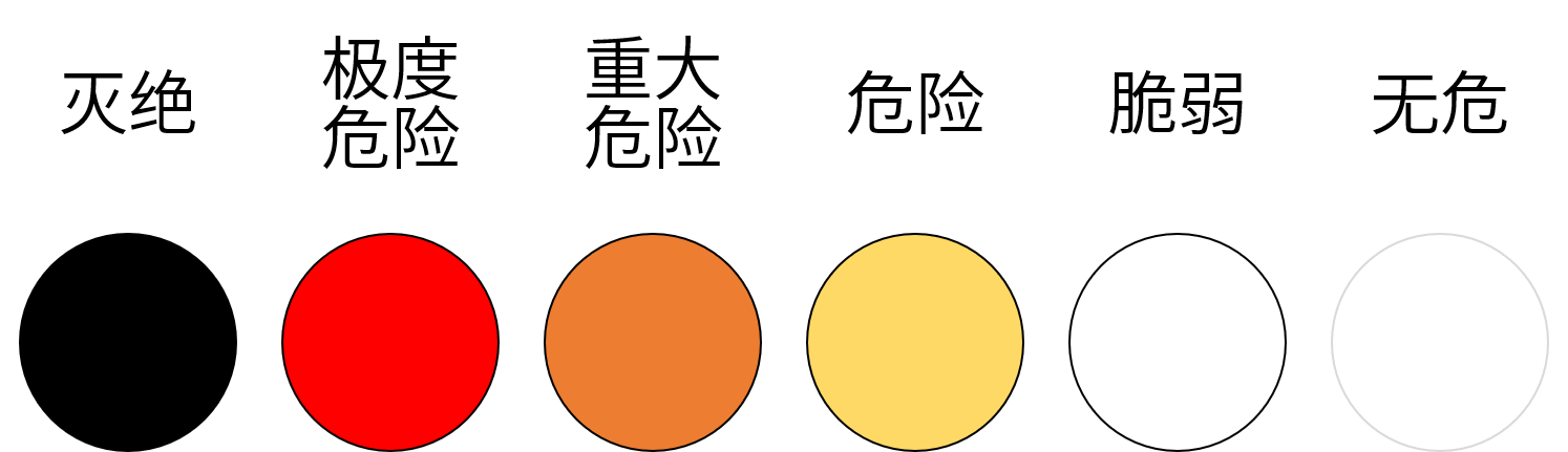 UNESCO Atlas of the World's Languages in Danger, All, Simplified Chinese